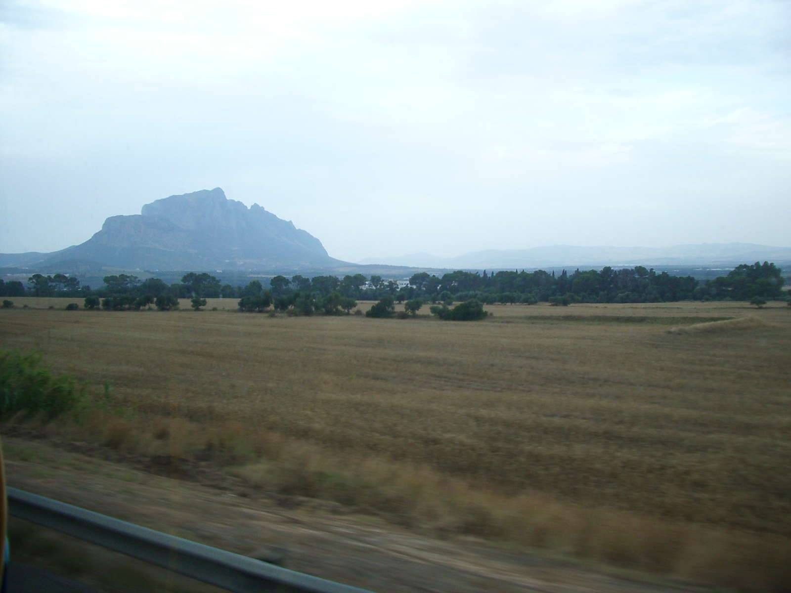 Djebel Ressas (Arabic: جبل الرصاص), near Mornag (South East of Tunis), Tunisia. The photo seems to be shot from the A1 motorway.